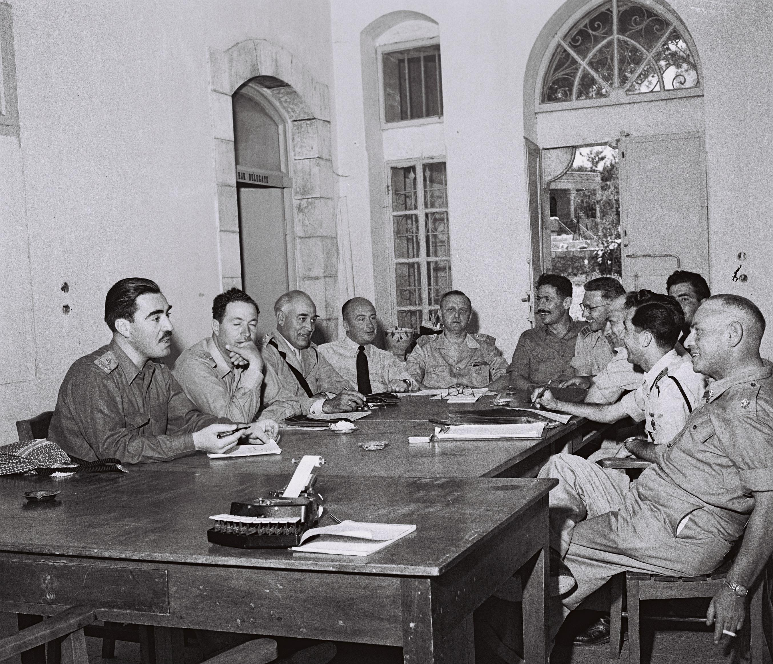 ISRAEL-JORDAN LOCAL COMMANDERS, ARMISTICE COMMUISSION, MANDELBAUM GATE, JERUSALEM.